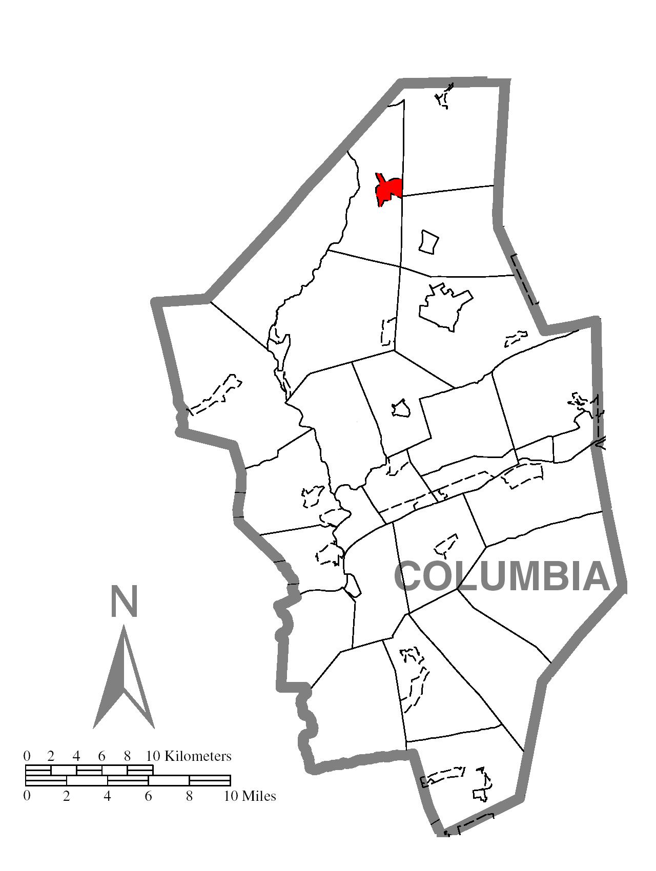 A map of Columbia County showing Waller Township, Pennsylvania (alternate) highlighted on the map.